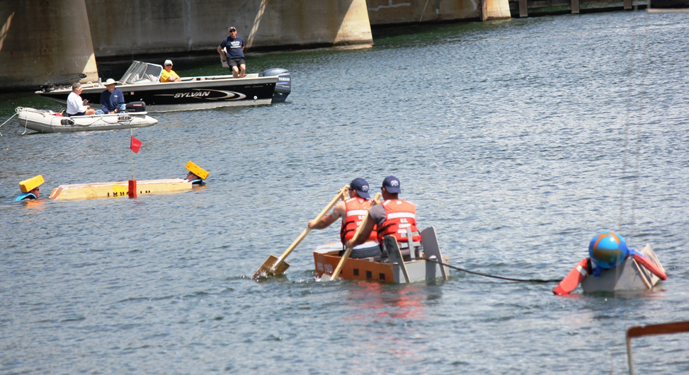 Coast Guard Lt. Cmdr. John Kaser, supervisor of the prevention division of Marine Safety Detachment Sturgeon Bay, Wis., and Petty Officer 2nd Class Dave Jones, a damage controlman at the MSD, swim around buoy one with their boat after capsizing while Petty Officer 1st Class Tyler Kline, a storekeeper, and Petty Officer 2nd Class James Heck, a mechanical engineer, both stationed at Coast Guard Station Sturgeon Bay Canal, in Sturgeon Bay, paddle their boat to the buoy during the 23rd Annual Classic and Wooden Boat Festival at Door County Maritime Museum in Sturgeon Bay, Wis., Aug. 4, 2013. The teams were given three sheets of plywood, several boards and eight tubes of caulk to build their vessels and propulsion instruments.